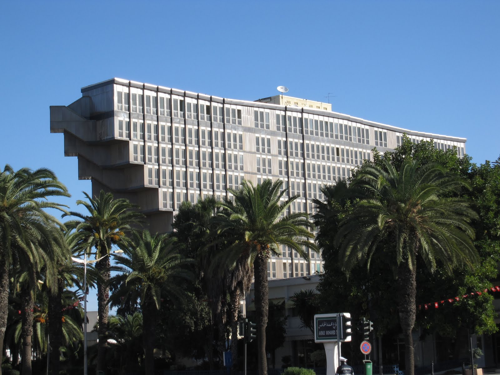 The Hôtel du Lac in the center of Tunis, Tunisia